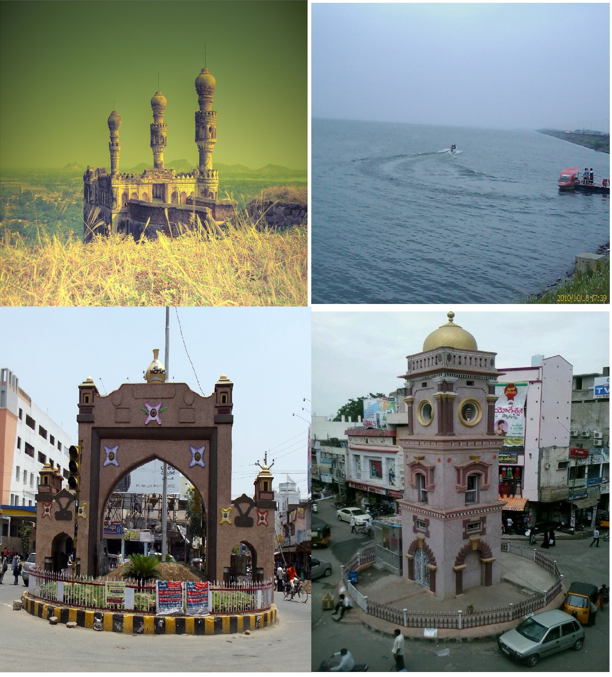 Historic And Tourist Sites of Karimnagar City Other information Historic And Tourist Sites of Karimnagar City